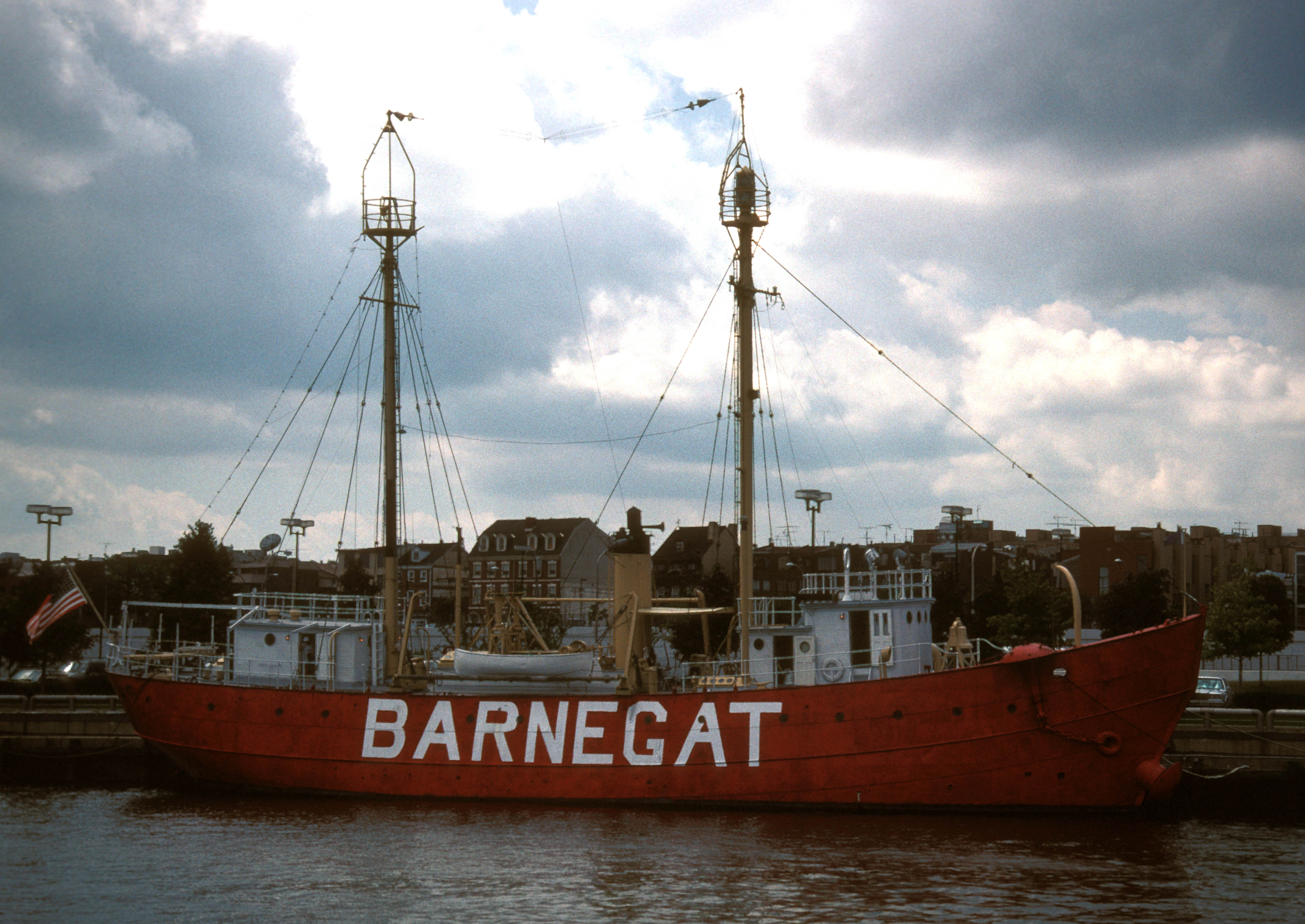 BUILT IN 1904 AND SERVED OFF CAPE MAY UNTIL 1924. IT WAS DECOMISSIONED IN 1967 AND SERVED AS A MUSEUM AT PENNS LANDING, PHILADELPHIA. IT IS NOW IN NEW JERSEY AWAITING MAINTENANCE